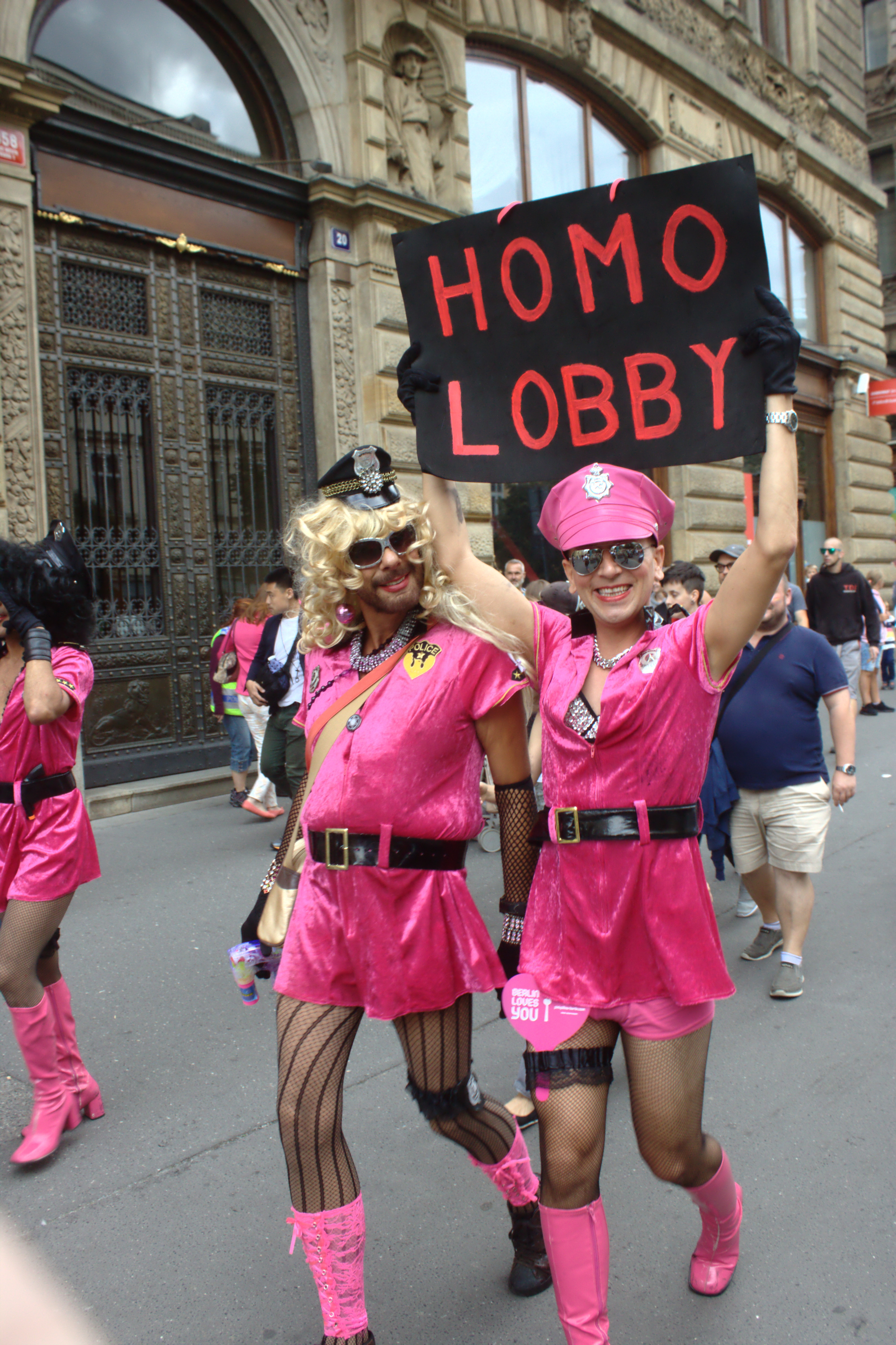 Prague Pride march in August 2017